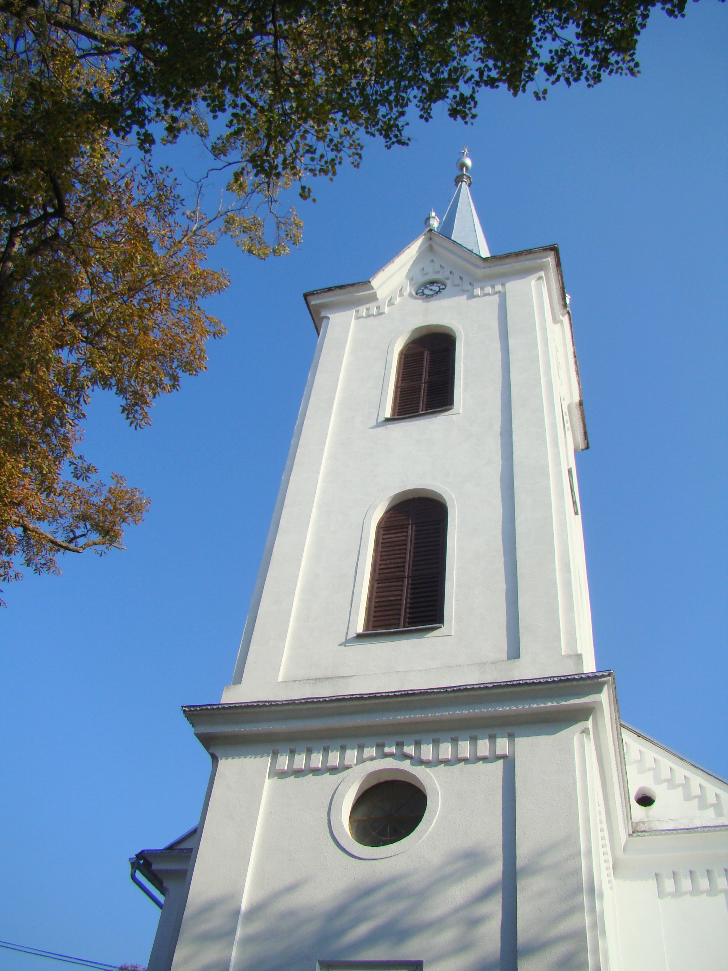 Reformed church in Band, Mureș County, Romania